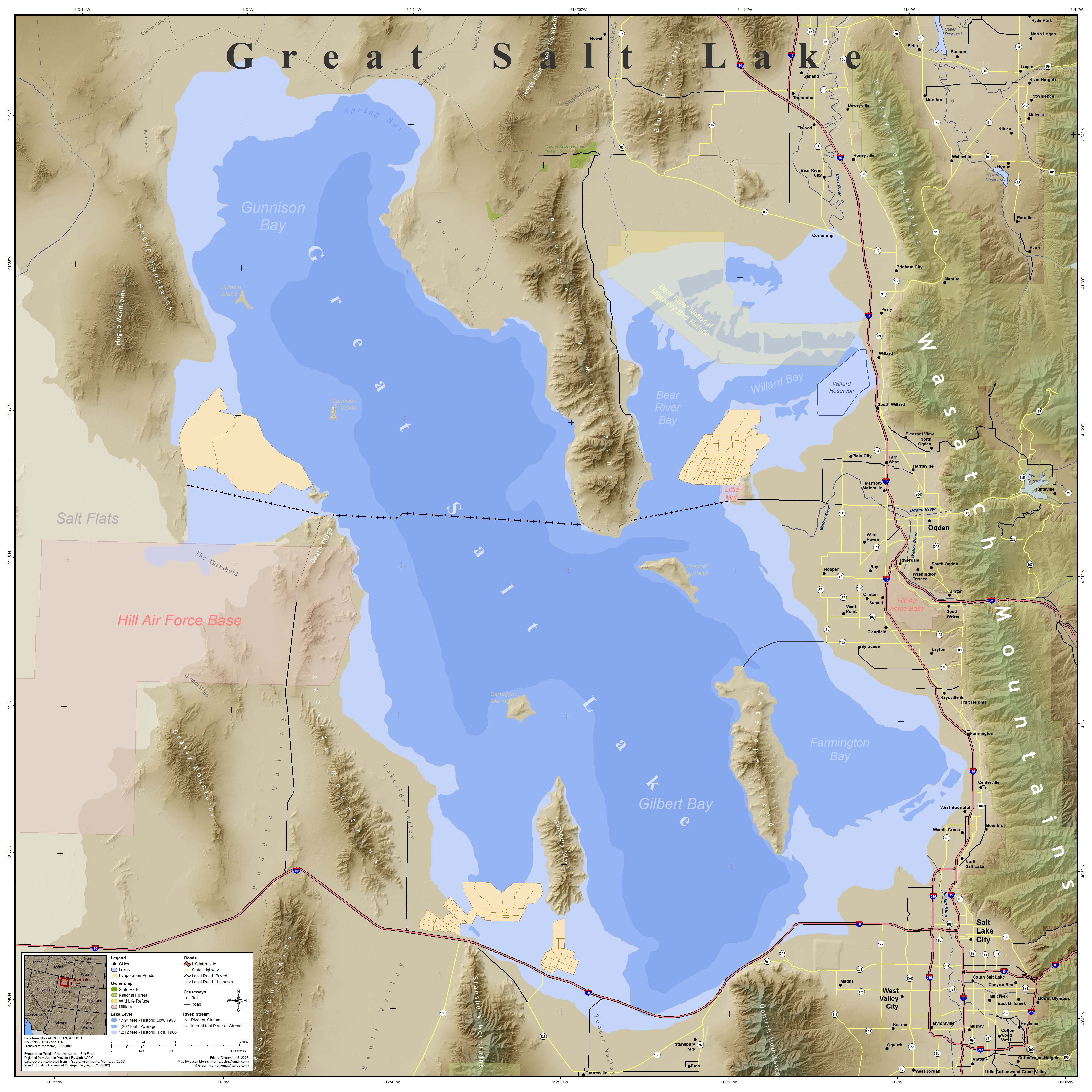 Map of the Great Salt Lake, Utah, United States showing predominant features.